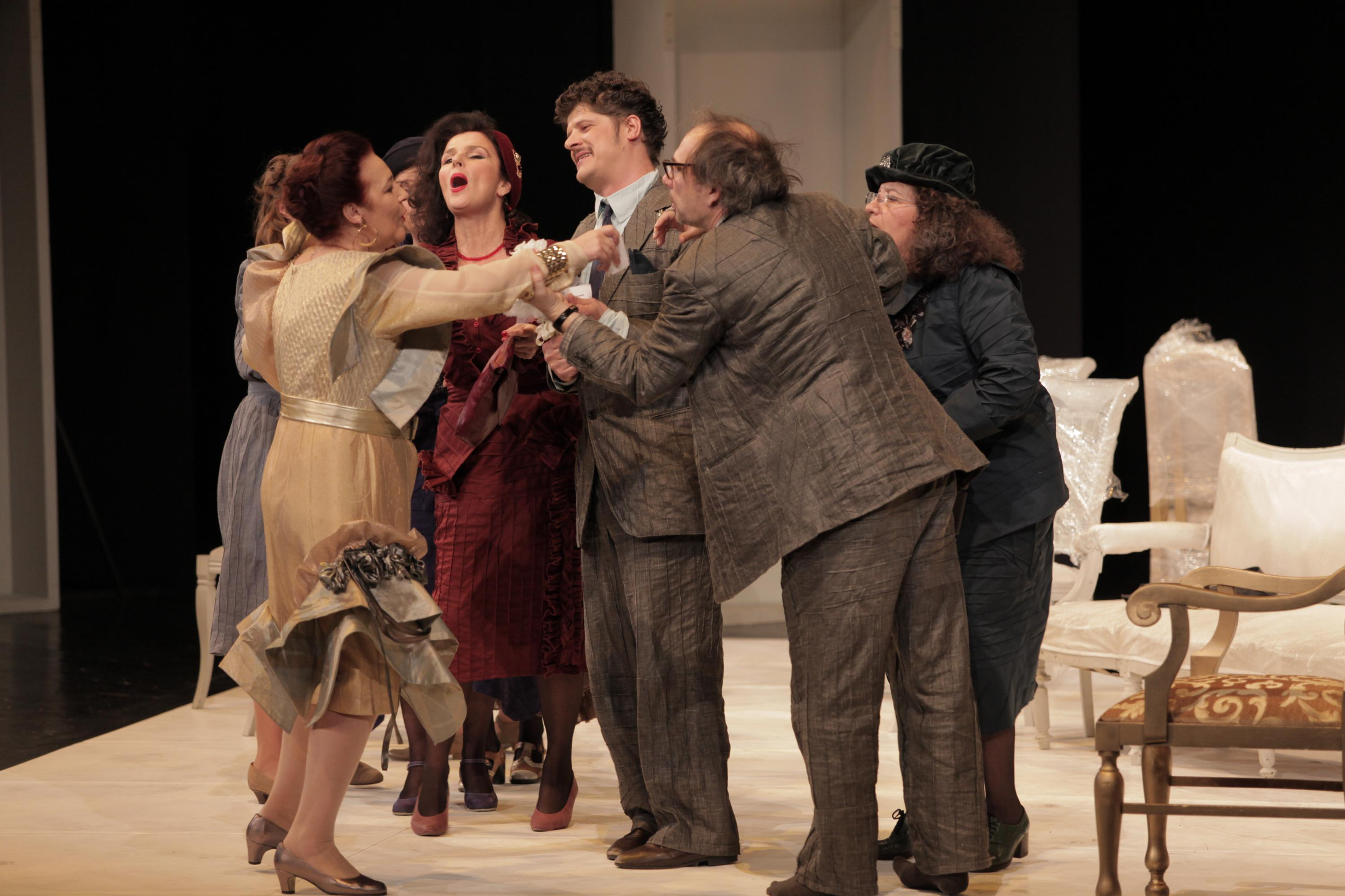 "The Minister's Wife", by Branislav Nušić, directed by Radoslav Milenković; Drama of the Serbian National Theatre, Novi Sad, 2013/14; Lidija Stevanović, Gordana Josić, Milovan Filipović, Aleksandar Gajin, Gordana Kamenarović Srpski (latinica): „Gospodja ministarka” Branislava Nušića u režiji Radoslava Milenkovića; Drama Srpskog narodnog pozorišta, Novi Sad, 2013/14, Lidija Stevanović, Gordana Josić, Milovan Filipović, Aleksandar Gajin, Gordana Kamenarović Српски (ћирилица): „Госпођа министарка“ Бранислава Нушића у режији Радослава Миленковића; Драма Српског народног позоришта, Нови Сад, 2013/14, Лидија Стевановић, Гордана Јосић, Милован Филиповић, Александар Гајин, Гордана Каменаровић